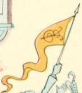 Flag of Ev, detail of illustration in Ozma of Oz